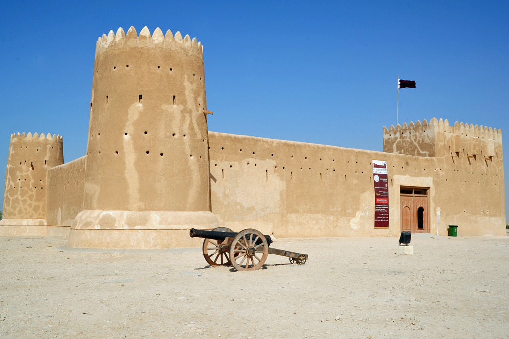 This old fort is a 100 or so kms northwest of Doha. It reminds me of the Foreign Legion forts I read about in Beau Geste. I don't think the Foregn Legion were ever in Qatar and this fort was built in 1938, so that puts paid to that!